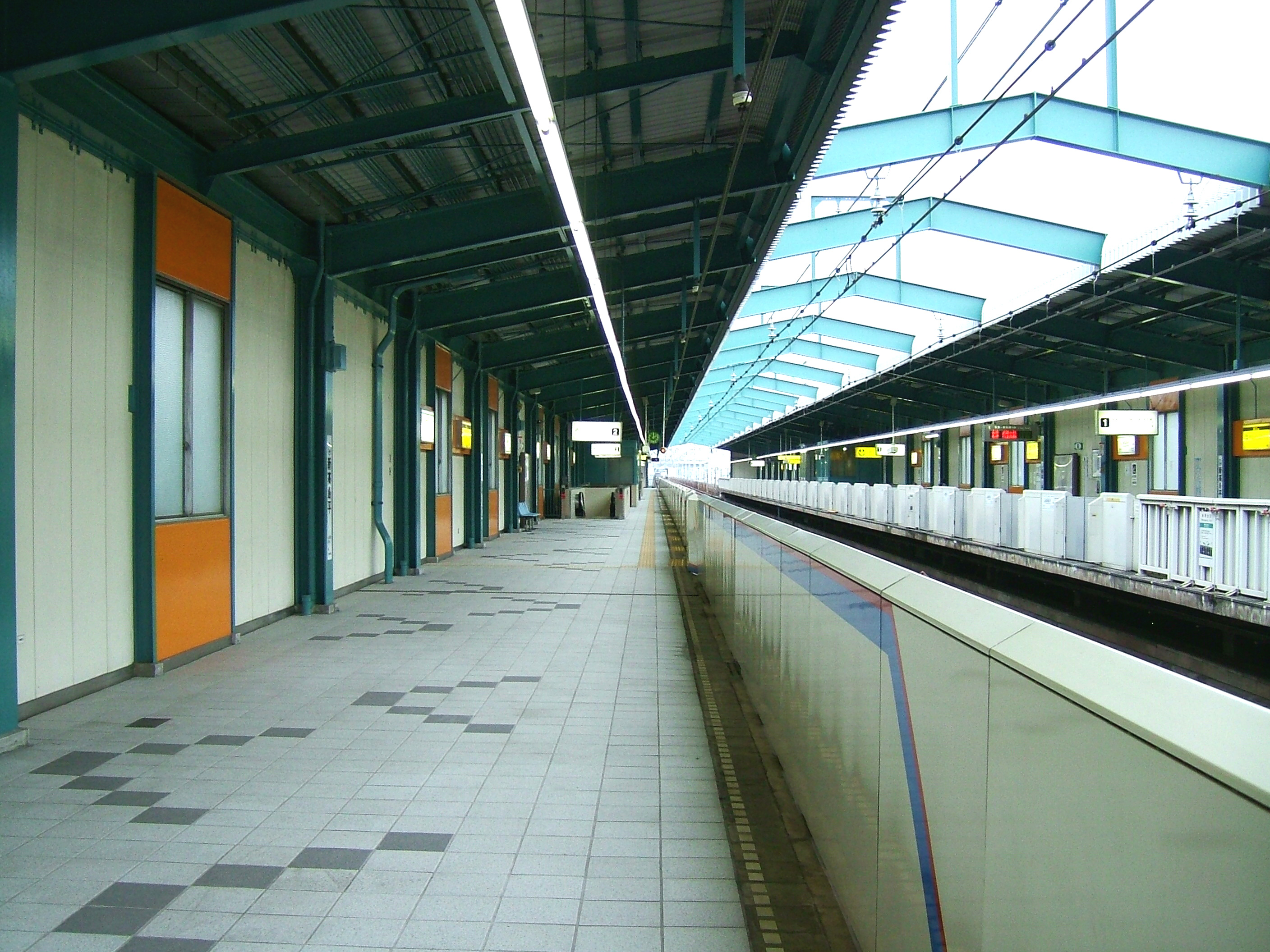 The platforms at Shin-Takashimadaira Station on the Toei Mita Line in Itabashi city, Tokyo, Japan